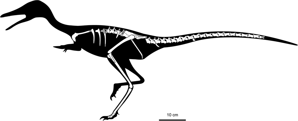 Skeletal reconstruction of Nemegtonykus, showing known material